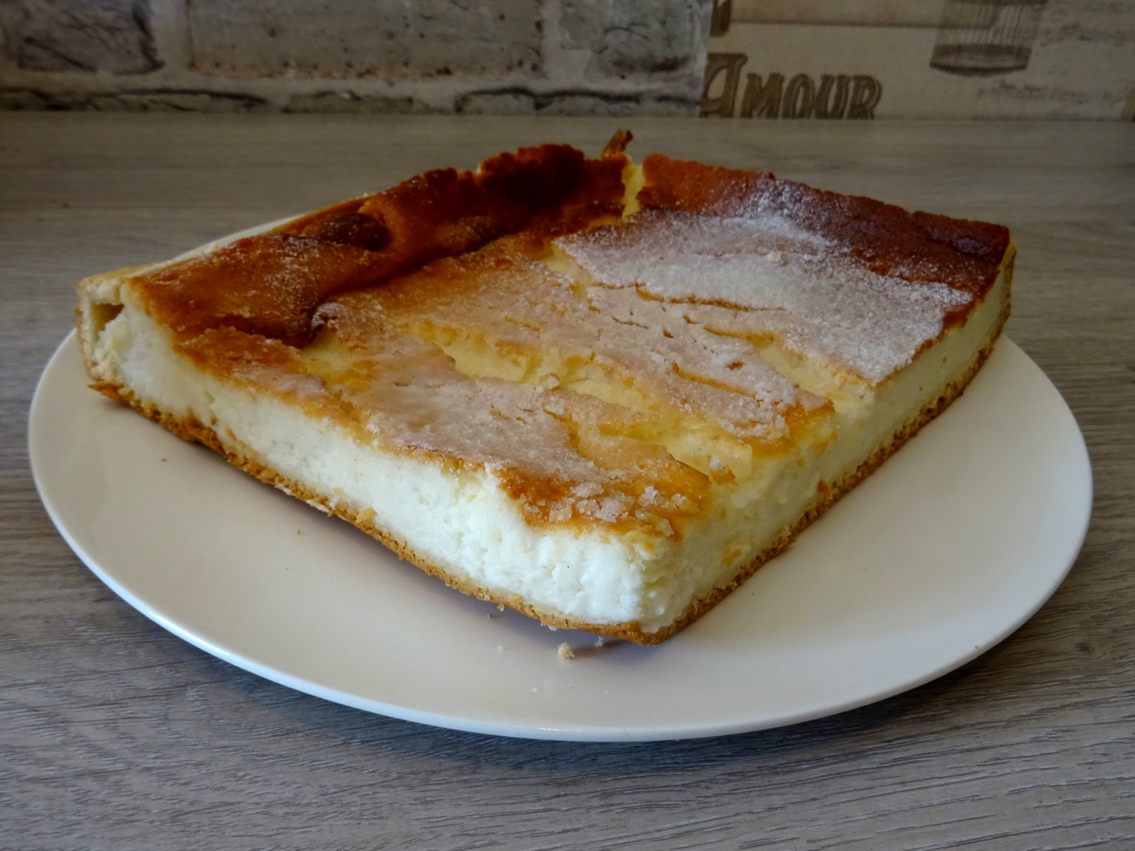 Hanklich (hencleș in Romanian), a traditional dessert of the Transylvanian Saxons. This is from a bakery in Brașov.